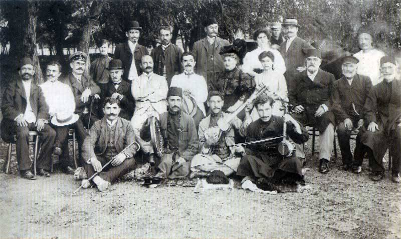 Mugham perfomers in Lankaran